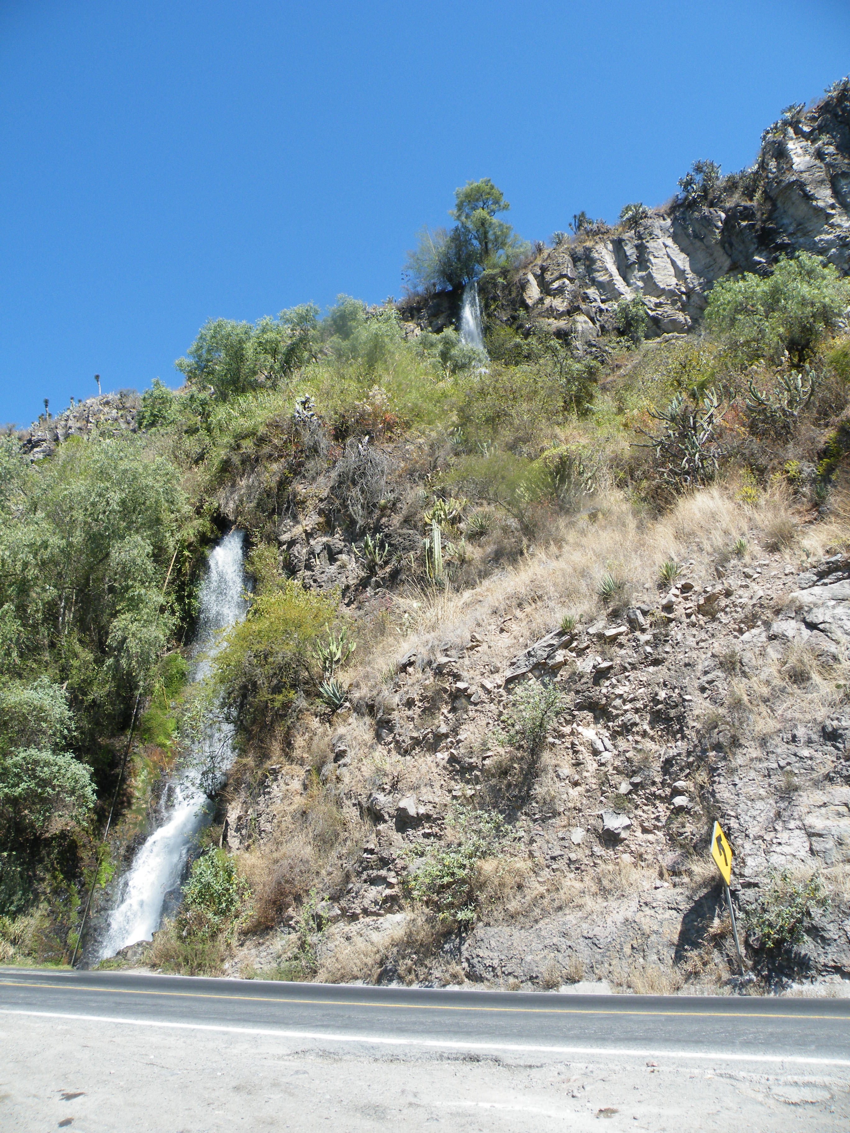 Metzquititlan North, Hidalgo